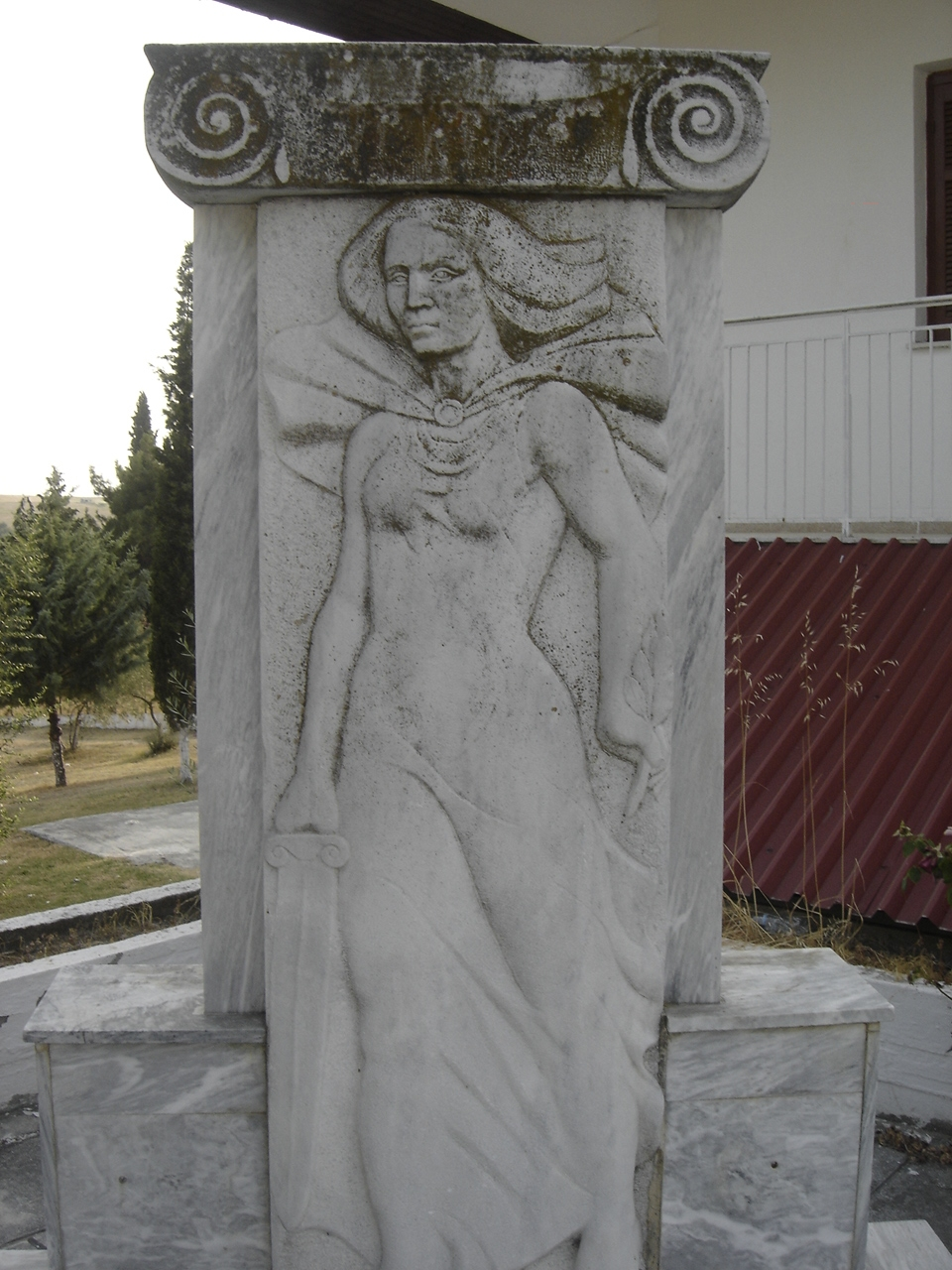 A memorial plaque in Kato Agiannis.